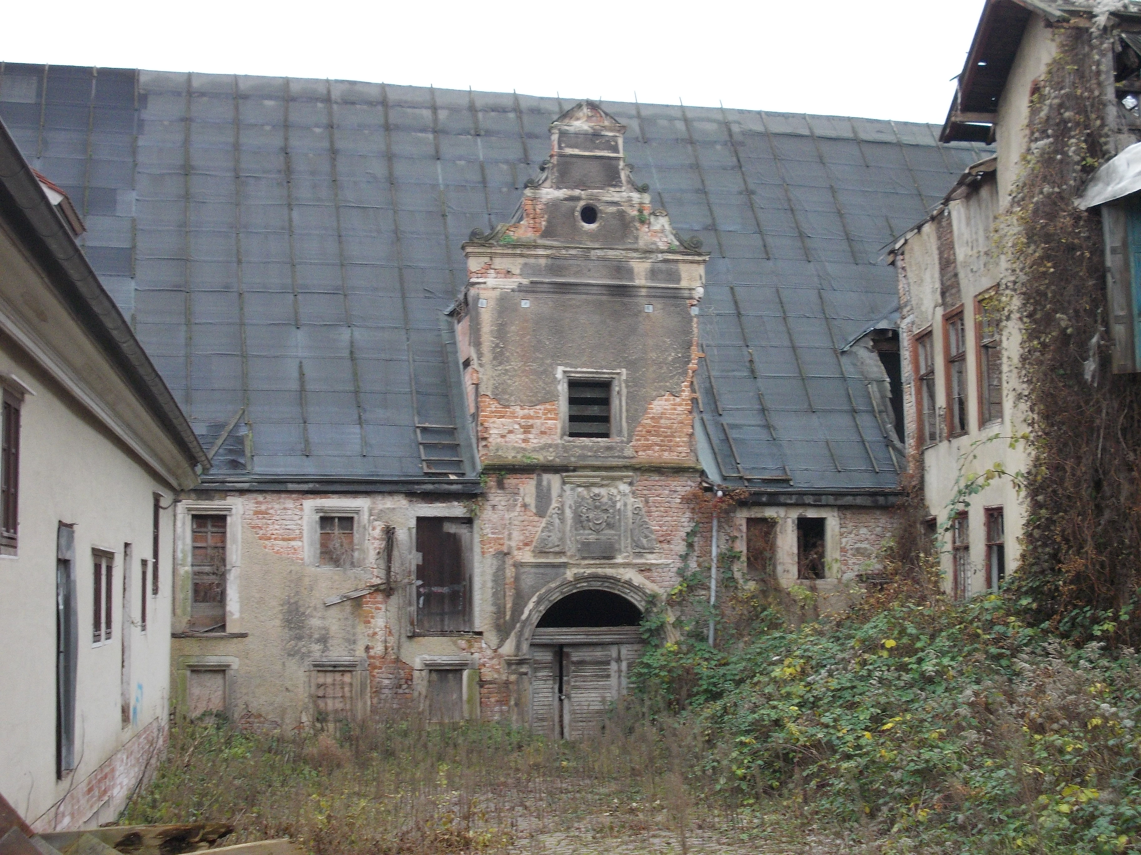 Neumühle ("New Mill") in Halle/Saale (Saxony-Anhalt)